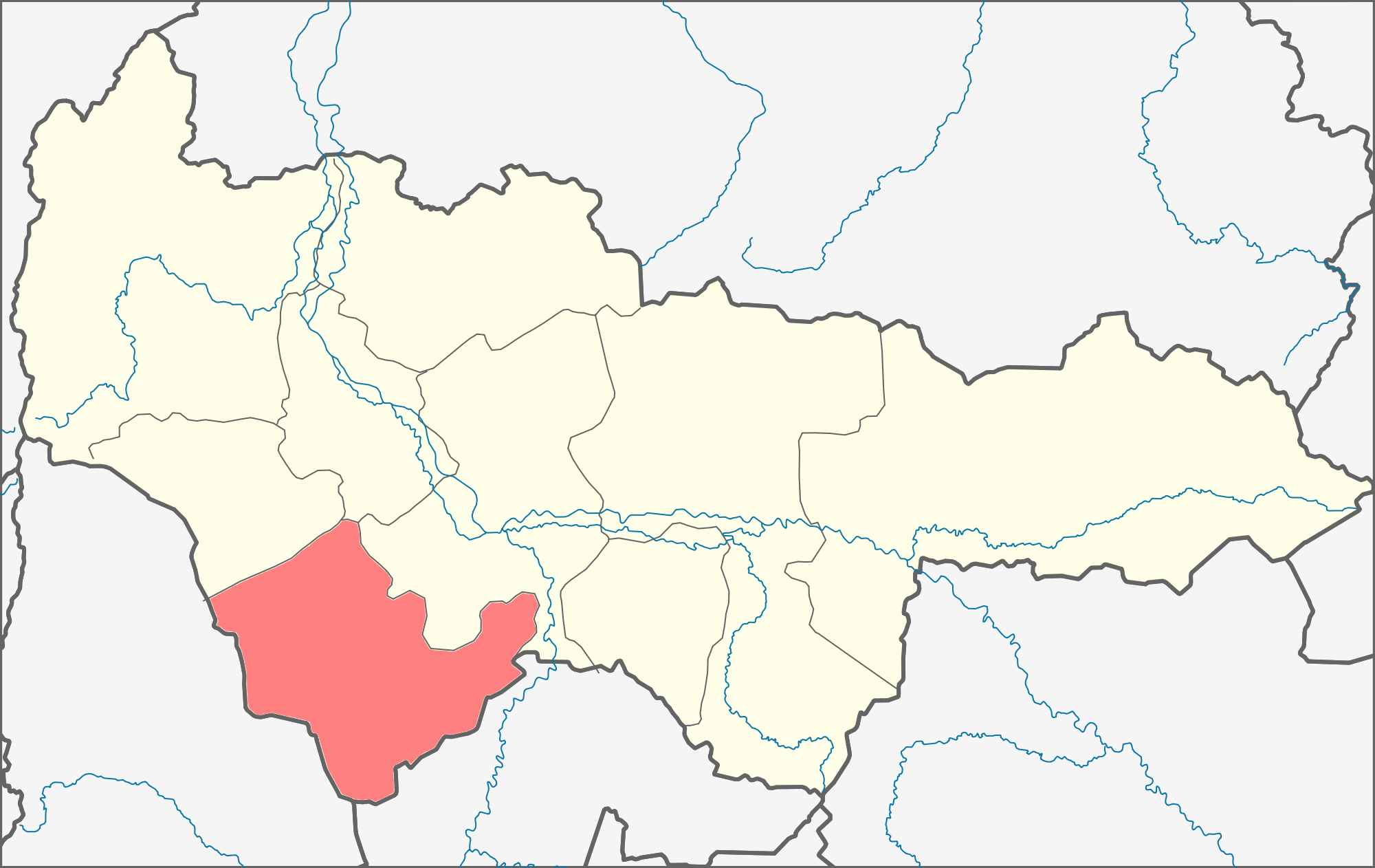 Location of Kondinsky District (= Konda district, from Konda river) in the Khanty–Mansi Autonomous Okrug, Russia. This is a derivative work, based on